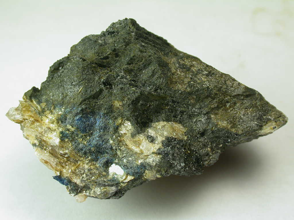 Scorzalite, Triphylite Locality: Custer District, Custer County, South Dakota, USA Original description: A 5.2 by 3.3 cms mass of very dark green Triphylite with blue Scorzalite towards the bottom left corner. JSS specimen and photo.